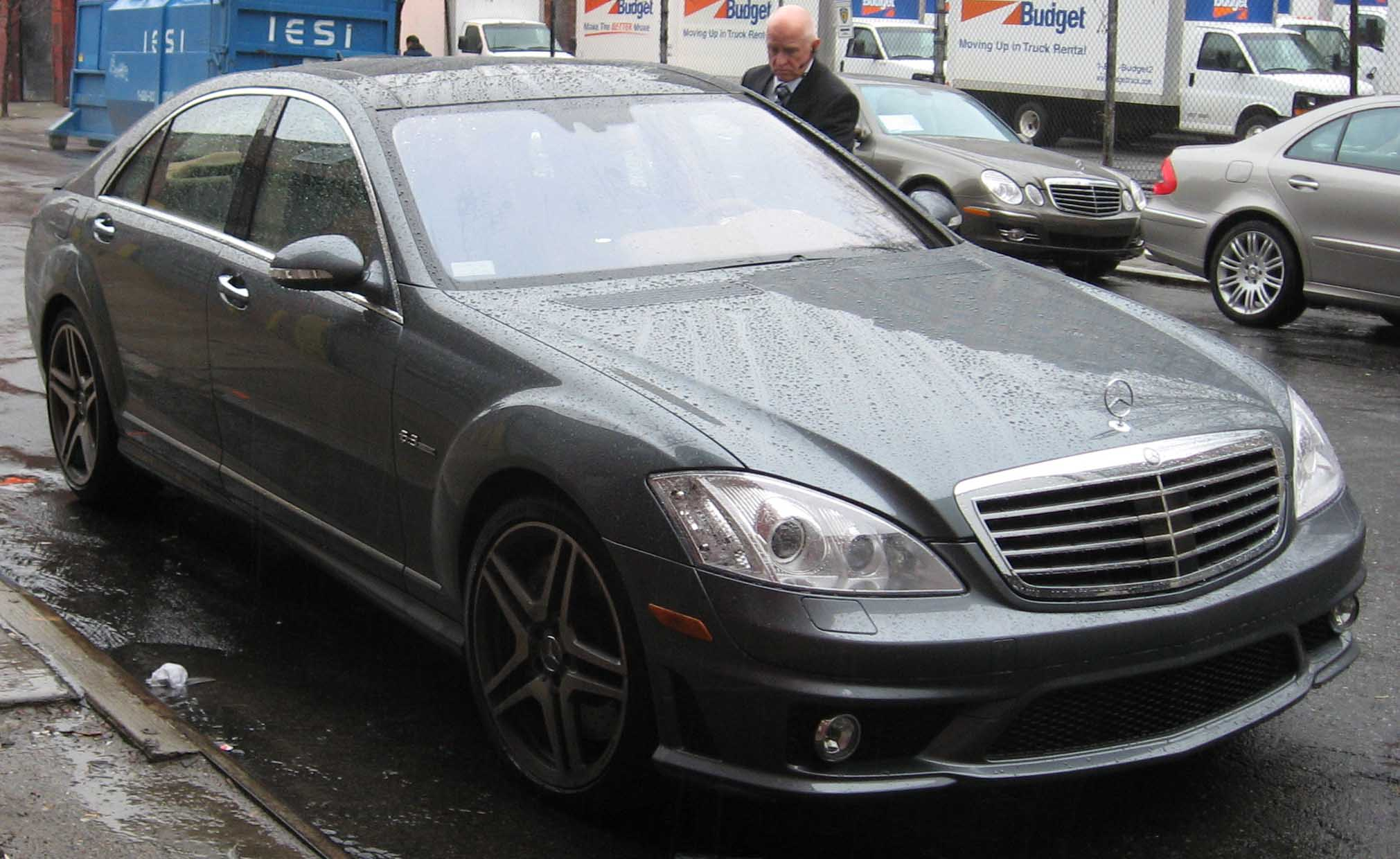 Mercedes-Benz S63 AMG photographed in New York City, USA.